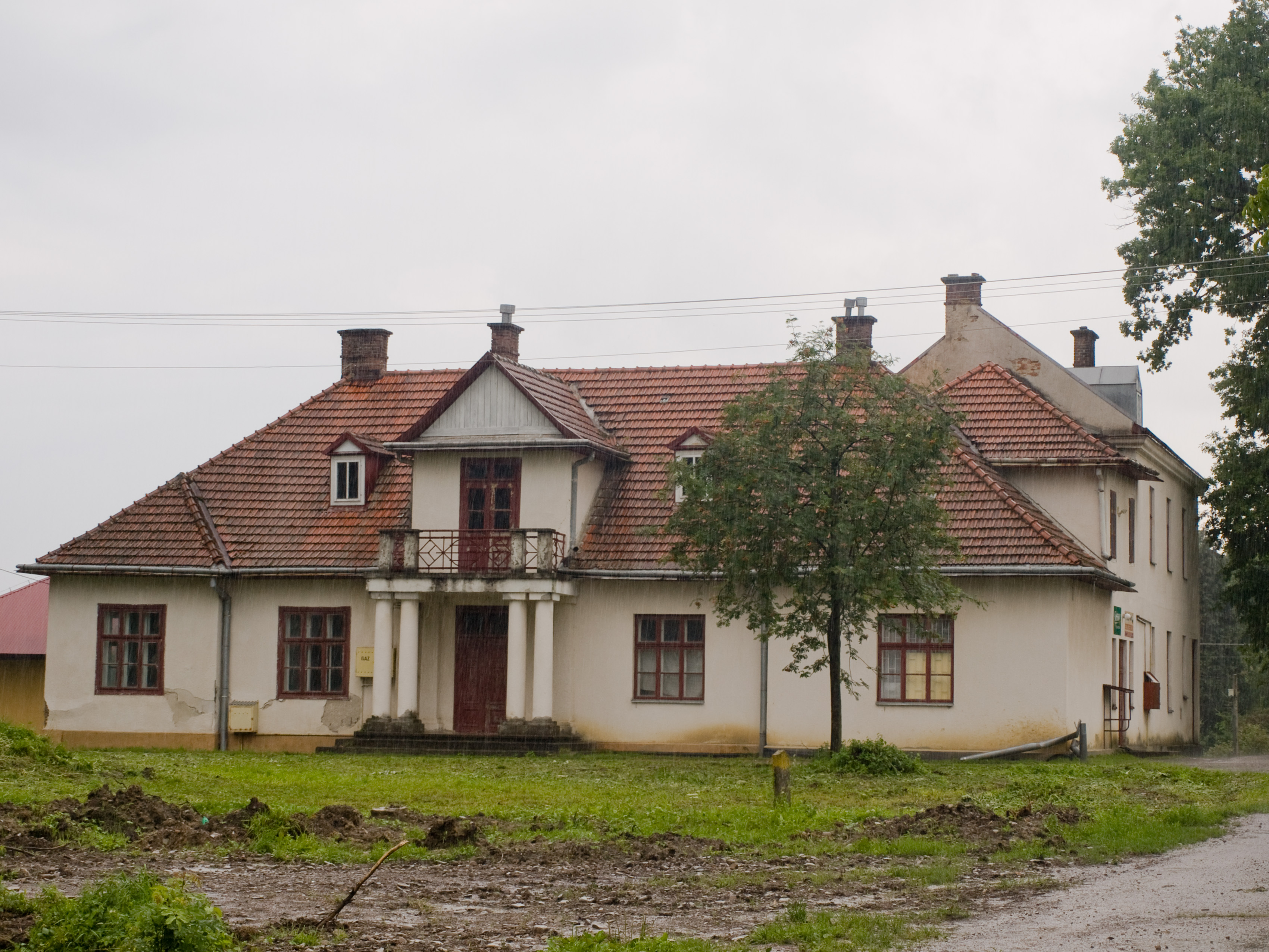 Manor house, Kobylany, Subcarpathian Voivodeship